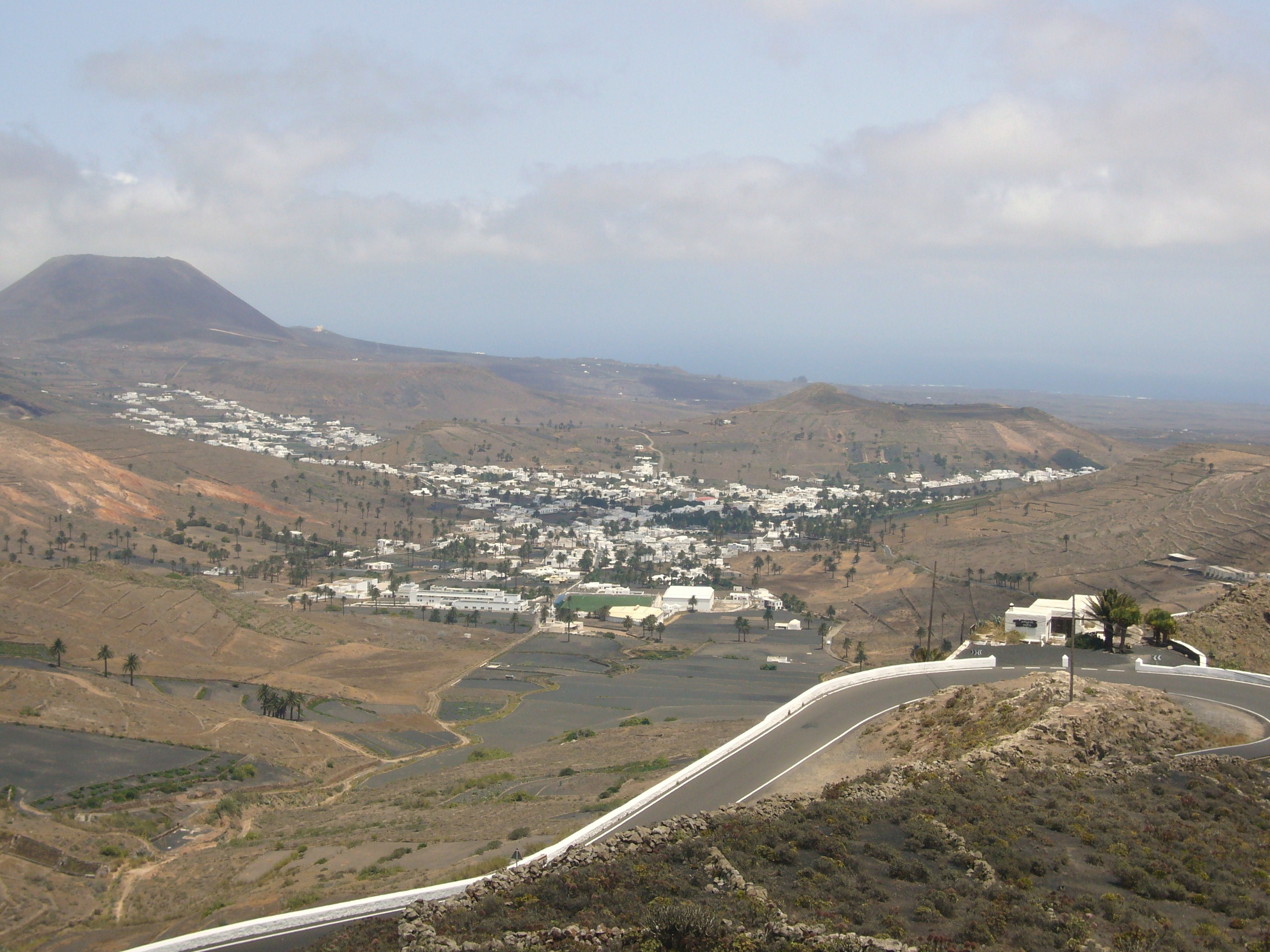 View from Mirador de Haría down to Haría (central) and Máguez (left) with the volcanoes La Atalaya (right) and Monte Corona (left behind Máguez).